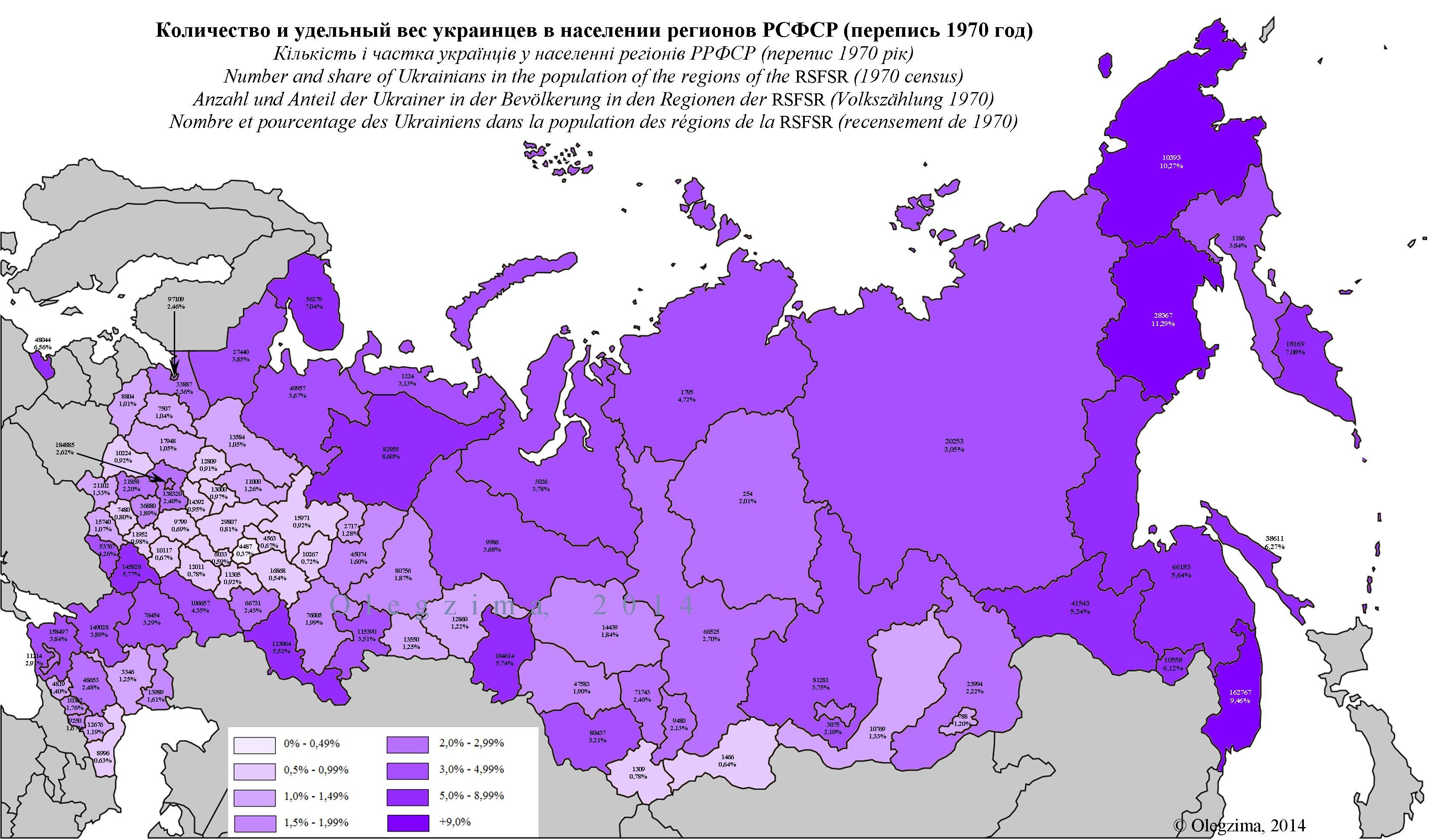 Number and share of Ukrainians in the population of the regions of the RSFSR (1970 census)